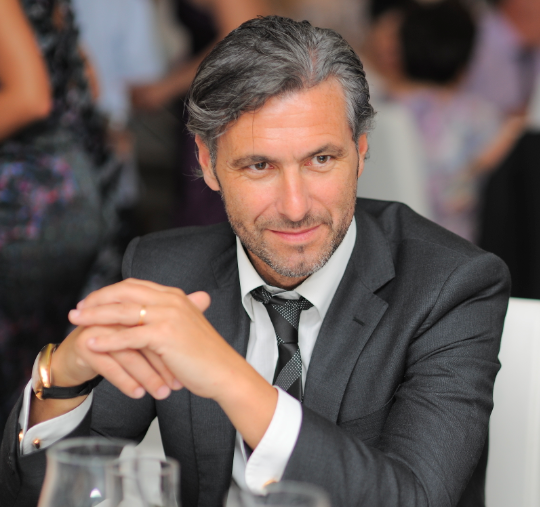 Artur Fernandes